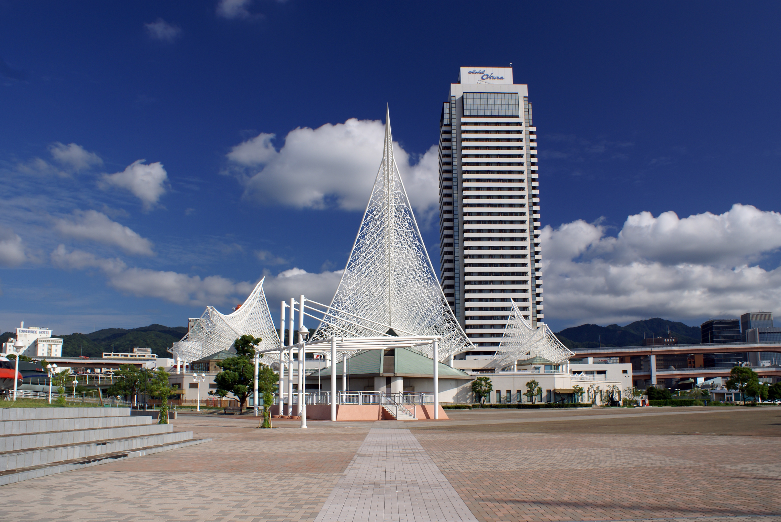 Kobe Maritime Museum in Kobe, Hyogo, Japan